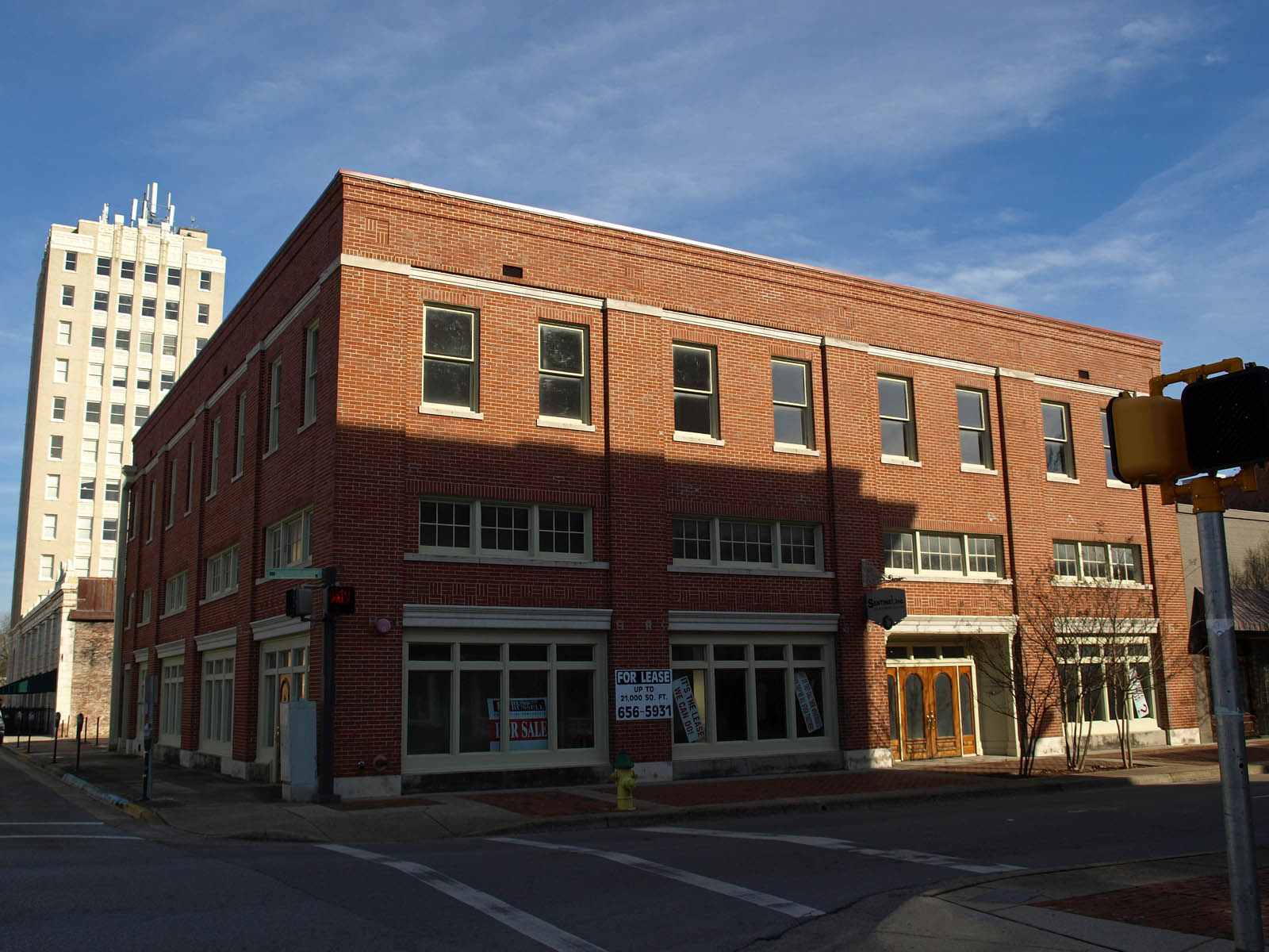 The Lowe-Kilgore Building in Huntsville, Alabama, listed on the National Register of Historic Places.